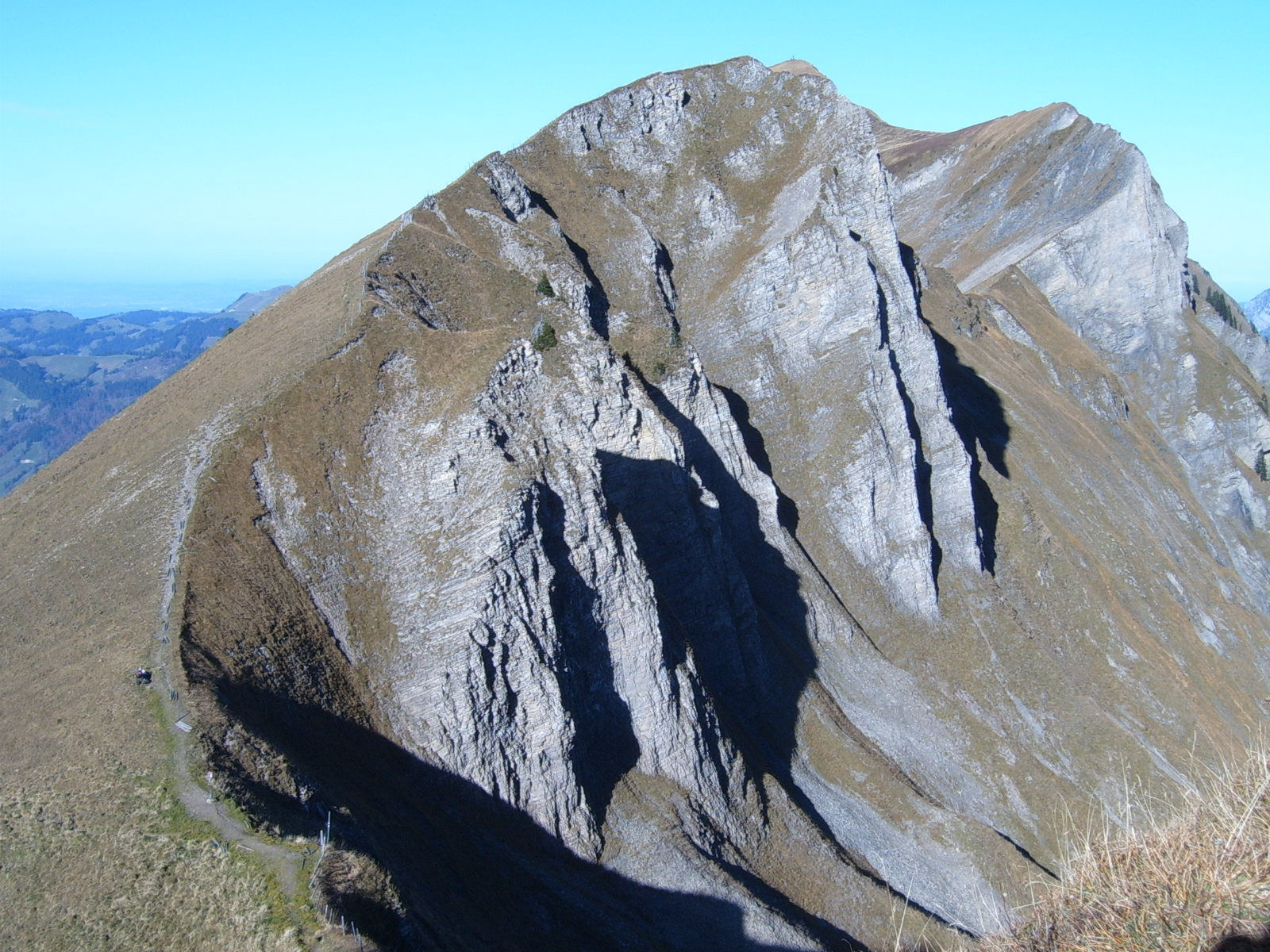 Biet (1968 m), in the foreground Saaspass (1896 m). Canton of Schwyz, Switzerland. Photographer: Markus Bernet Date: 10/30/2005